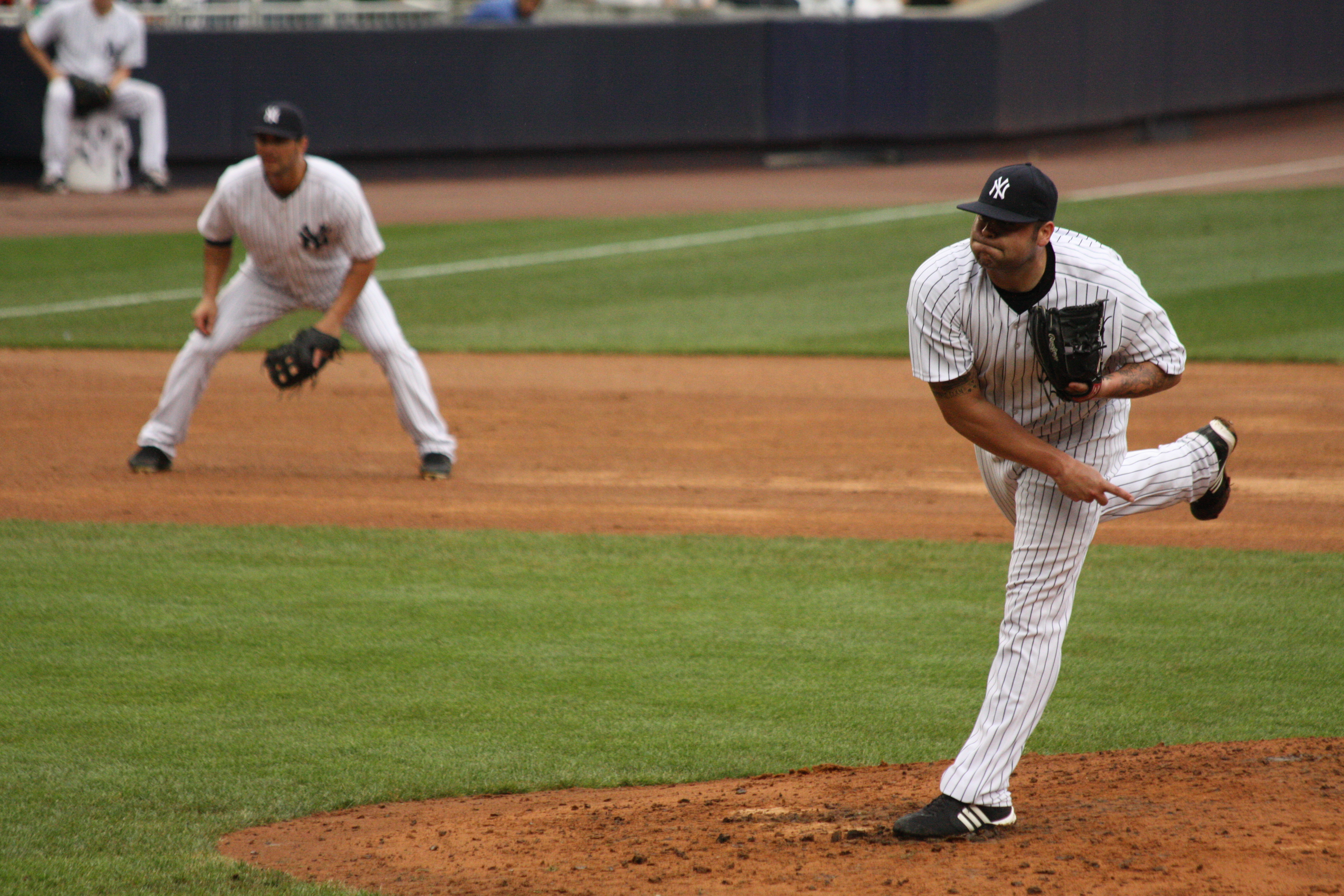 New York Yankees reliever Joba Chamberlain during a game against the Baltimore Orioles at Yankee Stadium in the Bronx, New York, NY on August 1, 2012